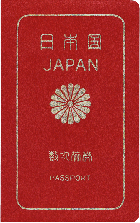 Japanese old passport of multiple exit type issued in the 1980s; witdh 97mm x height 155mm.